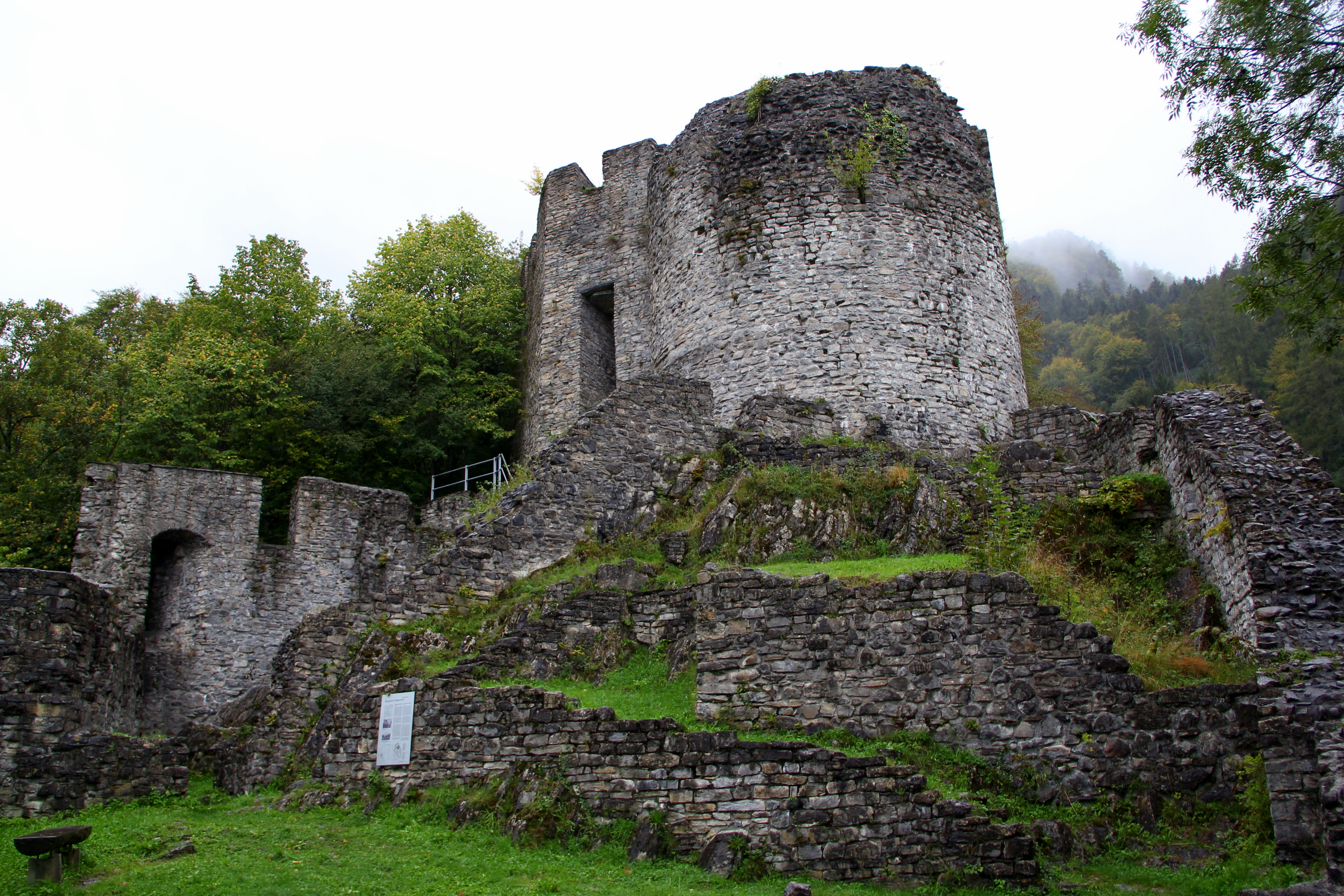 The ruin of Unspunnen Castle, located near Wilderswil (above Interlaken), Switzerland.